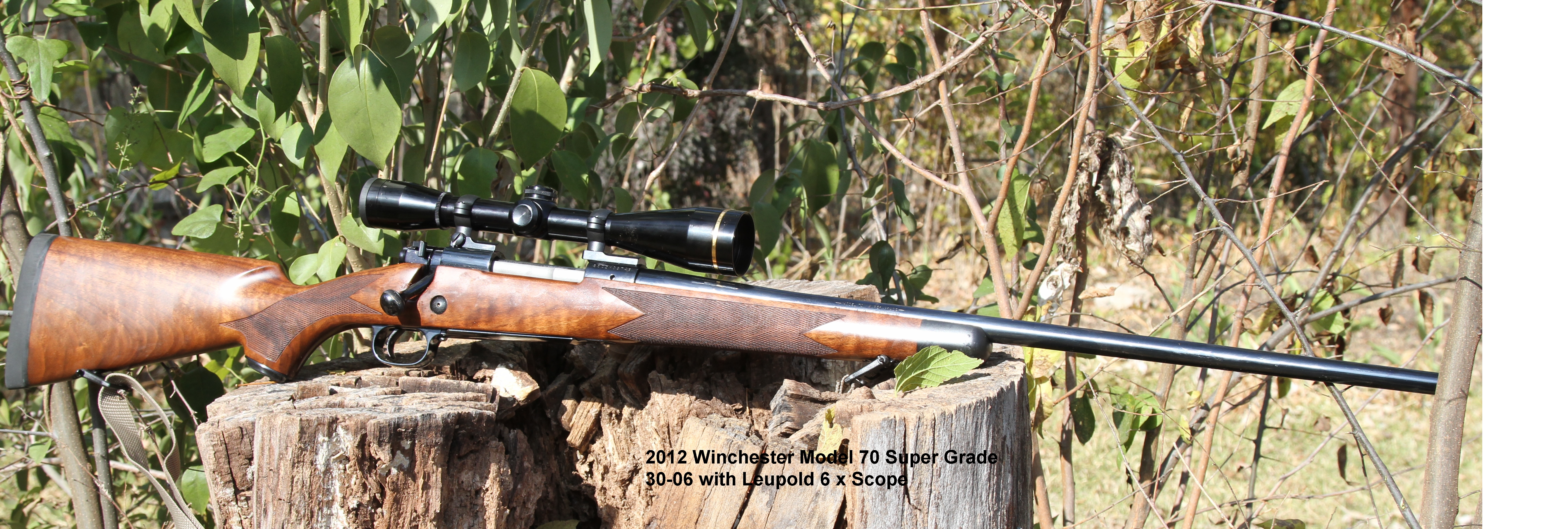 A Winchester Model 70 Super Grade in 30-06 with Leupold 6x/42MM scope